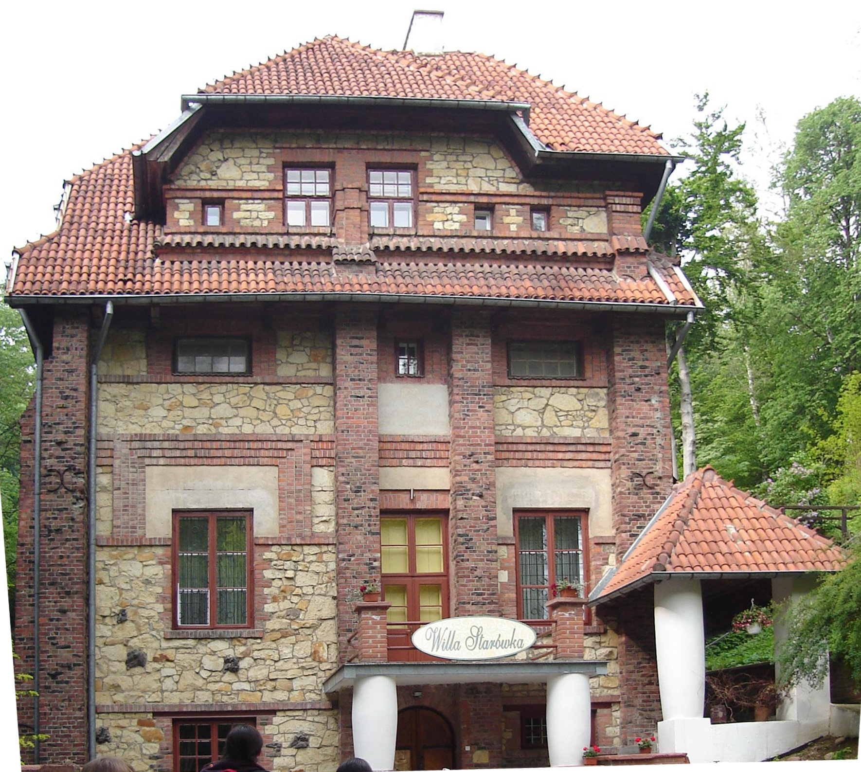 Nałęczów Art School